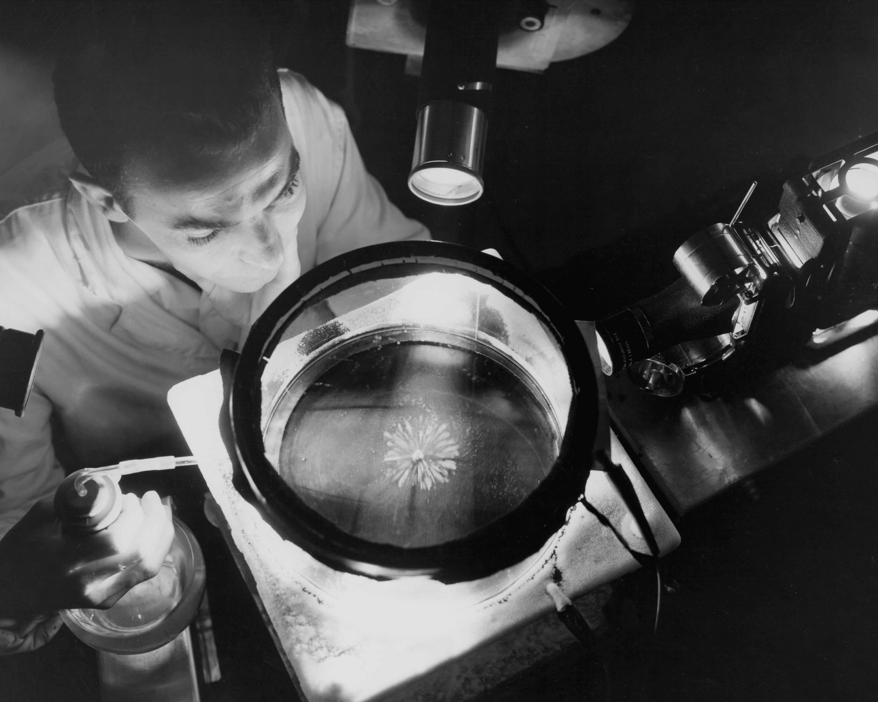 NASA Physicist studying Alpha Rays in a continuous cloud chamber. A cloud chamber is used by Lewis scientists to obtain information aimed at minimizing undesirable effects of radiation on nuclear-powered aircraft components. Here, alpha particles from a polonium source emit in a flower-like pattern at the cloud chamber's center. The particles are made visible by means of alcohol vapor diffusing from an area at room temperature to an area at minus -78 deg. Centigrade. Nuclear-powered aircraft were never developed and aircraft nuclear propulsion systems were canceled in the early 1960s.